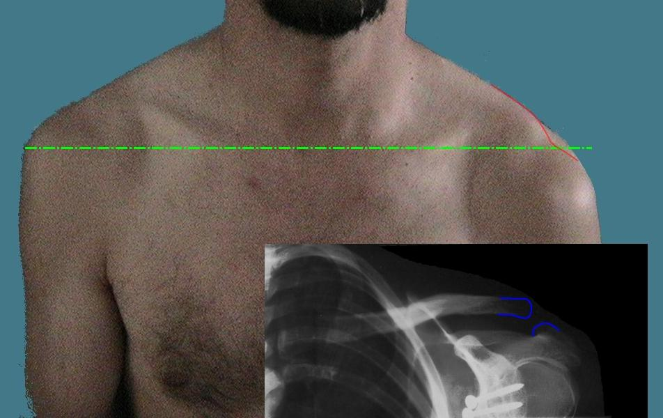 acromio-clavicular disjunction (left shoulder) — note that the shoulder is lower and the "piano key"; the scar on the photograph and the screws on the radiograph are from internal fixation repair of a former trauma, without any connection with the present trauma